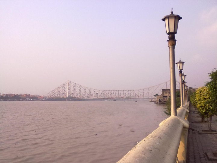 View of Howrah Bridge and Hoogly River, from Millennium Park, Kolkata.